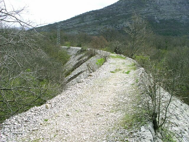 Part of the abandoned and dismantled train track Čapljina - Gabela - Dubrovnik (section near Popovo Polje), Republika srpska, Bosnia and Herzegovina